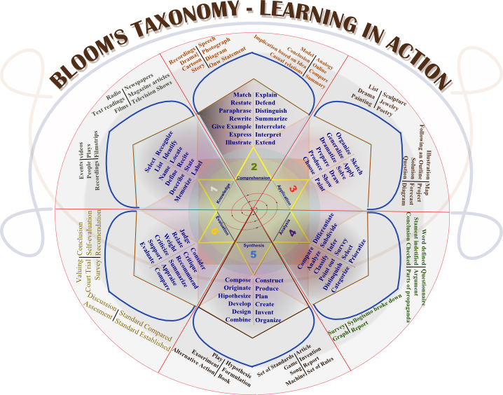 The Bloom's Rose is actually a work of art. I always want to have at hand most of the learning action verbs, so I can improve my professional practice by remembering them at ease. Life is action! (Well this is based on Albert Ellis's dictum. This Diagram-art is based on many other diagrams, that in turn were based on Bloom's cognitive taxonomy of learning. Actually he developed at least two more taxonomies but they are not too well known. Well, I hope you enjoy your actions more than using these verbs. JMK/NYC